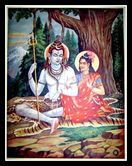 Another view of the ascetic Shiva and the well-dressed Parvati (bazaar art, c.1950's)